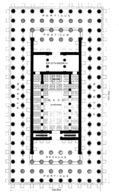 Plan of the Artemision of Ephesus (the columns with half-tint represent the 36 columnae caelatae).